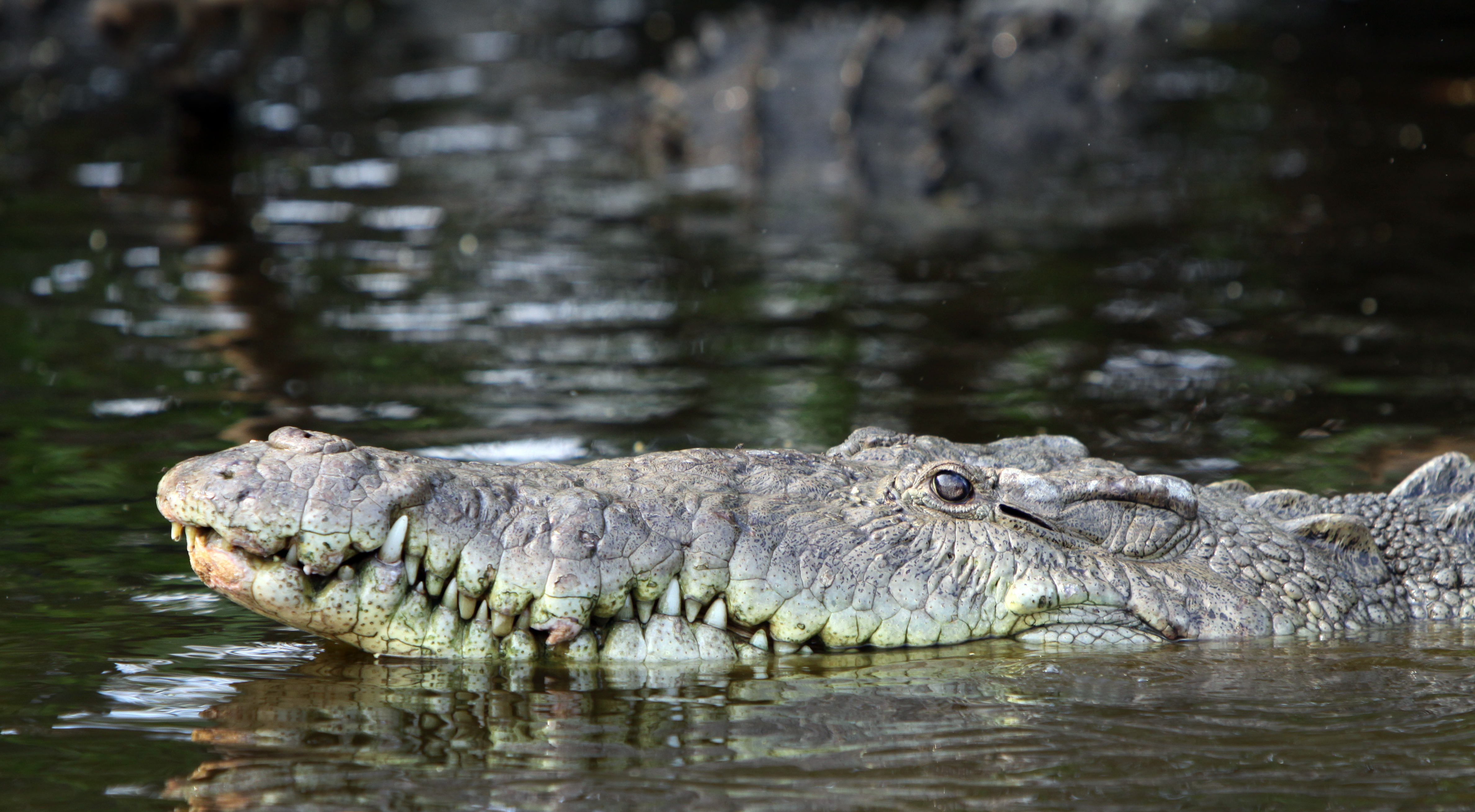 American crocodile in La Manzanilla swamp, in the state of Jalisco, Mexico.